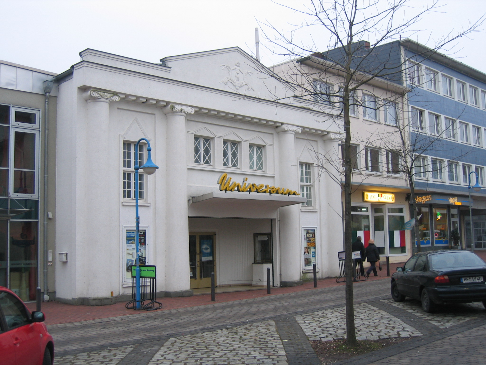 Cinema in town of Bünde, District of Herford, North Rhine-Westphalia, Germany.